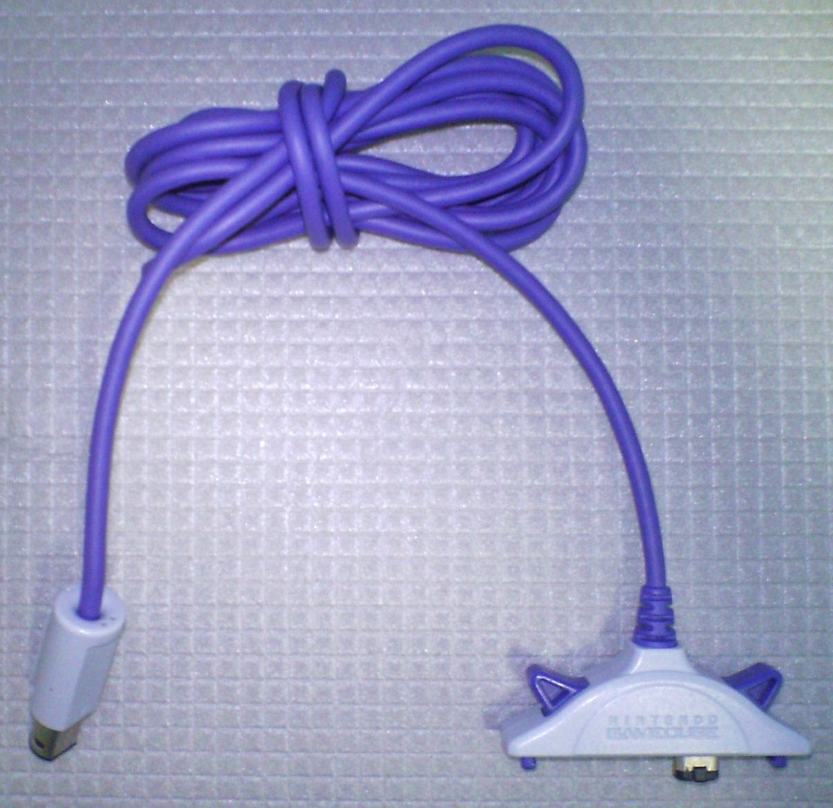 The Nintendo GameCube Game Boy Advance Cable.